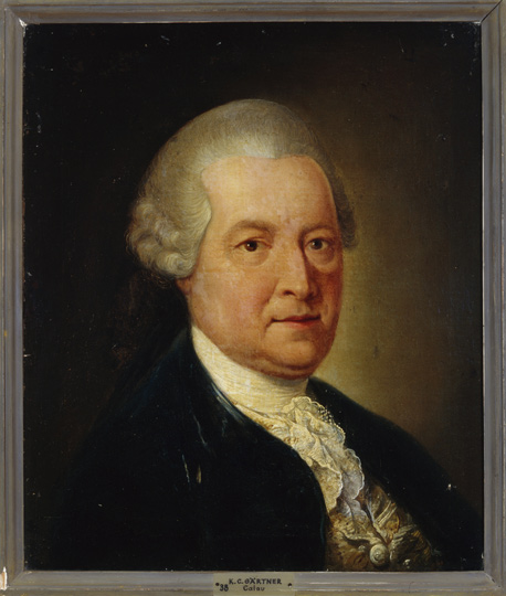 The german writer Karl Christian Gärtner (1712-1791)